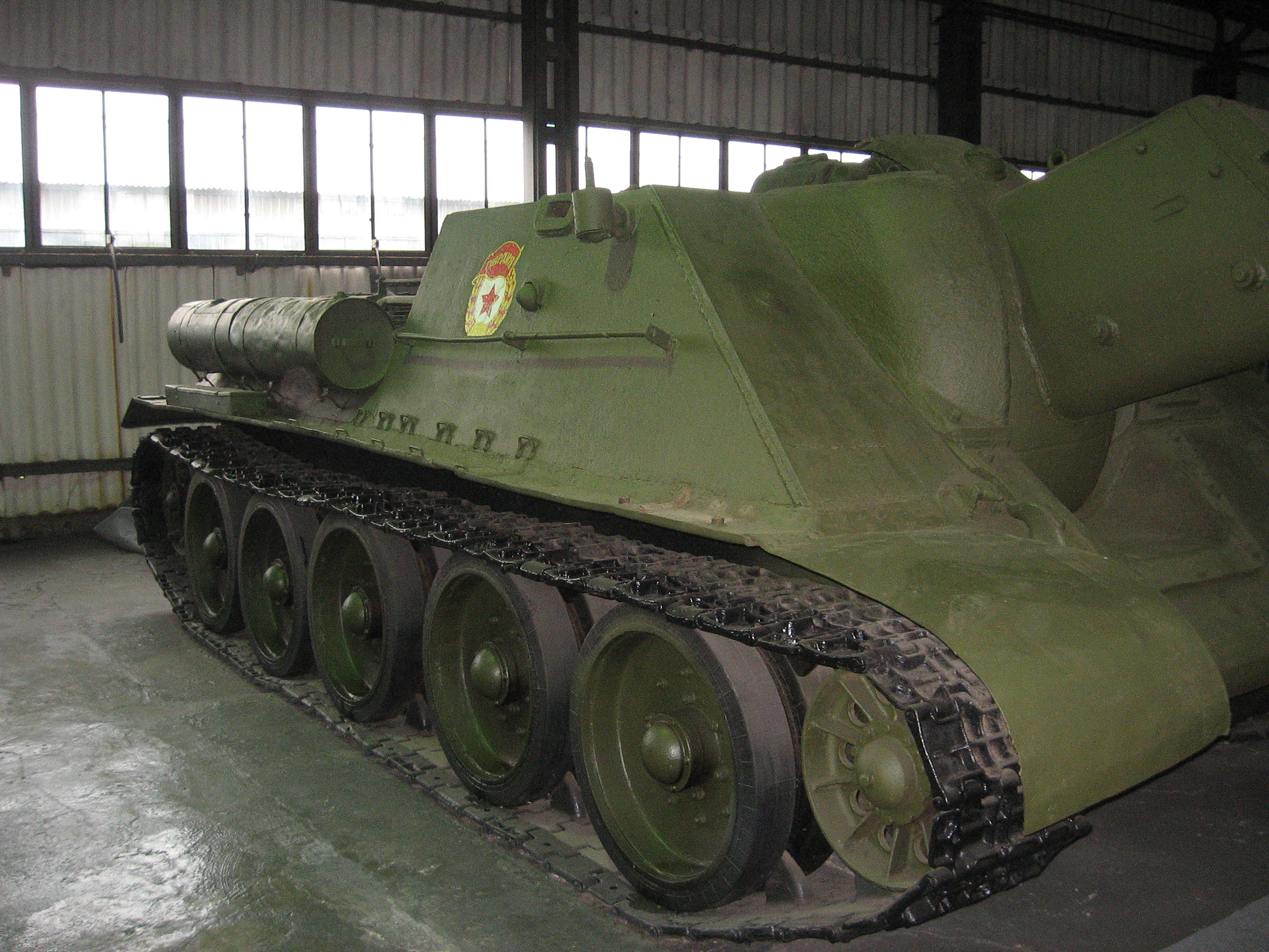 Soviet self-propelled gun SU-122, displayed in Kubinka Tank Museum. Photo taken on September 10, 2006. Source: Photo by BVV.